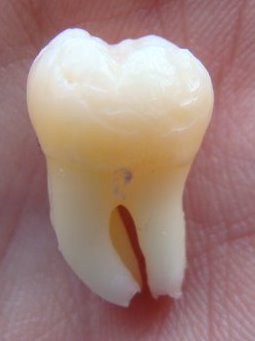 Wisdom tooth, not fully formed yet, unerupted – extracted. You can see layers of enamel forming.